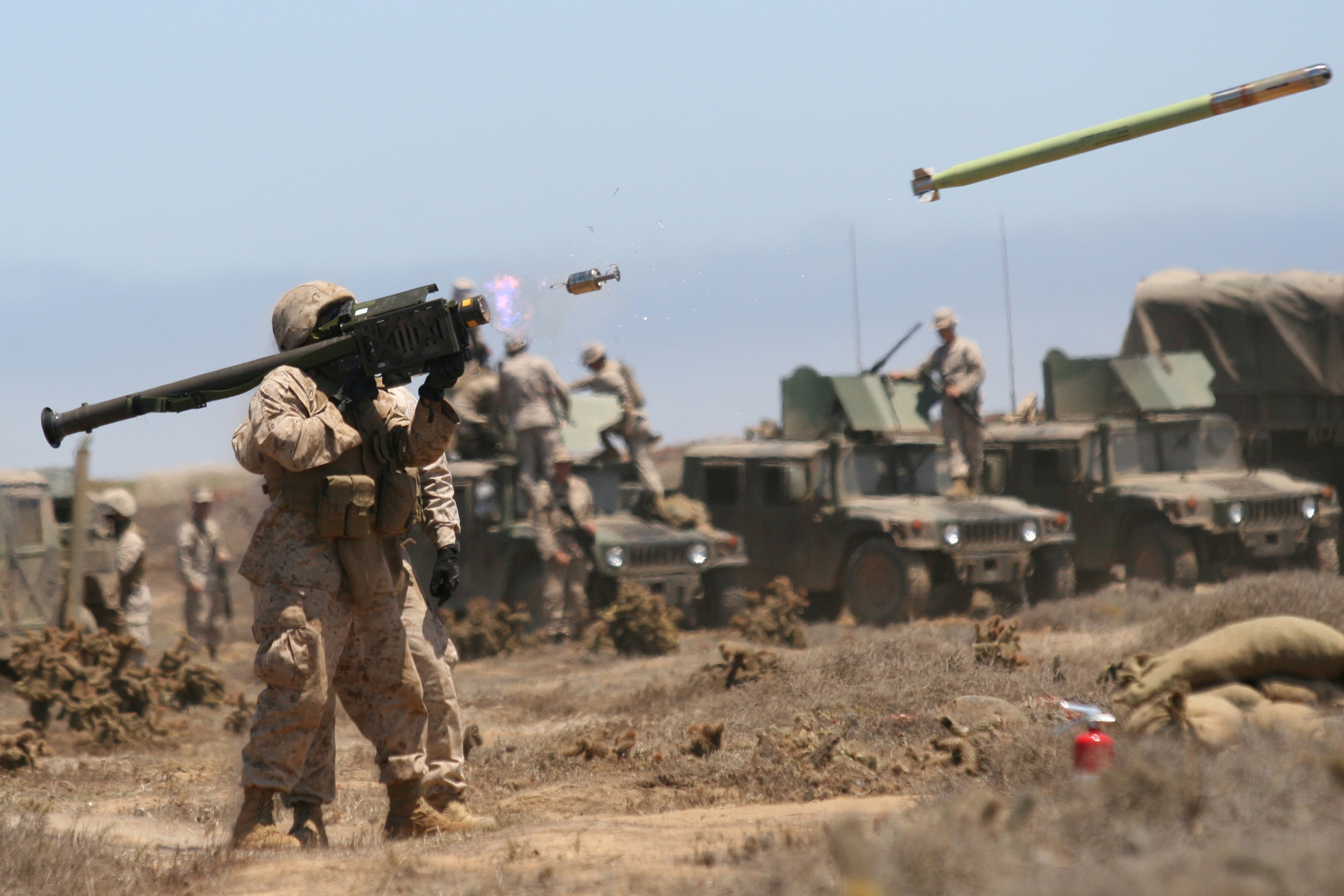 A Marine fires a FIM-92A Stinger missile at an unmanned aerial target during training at San Clemente Island, July 28.